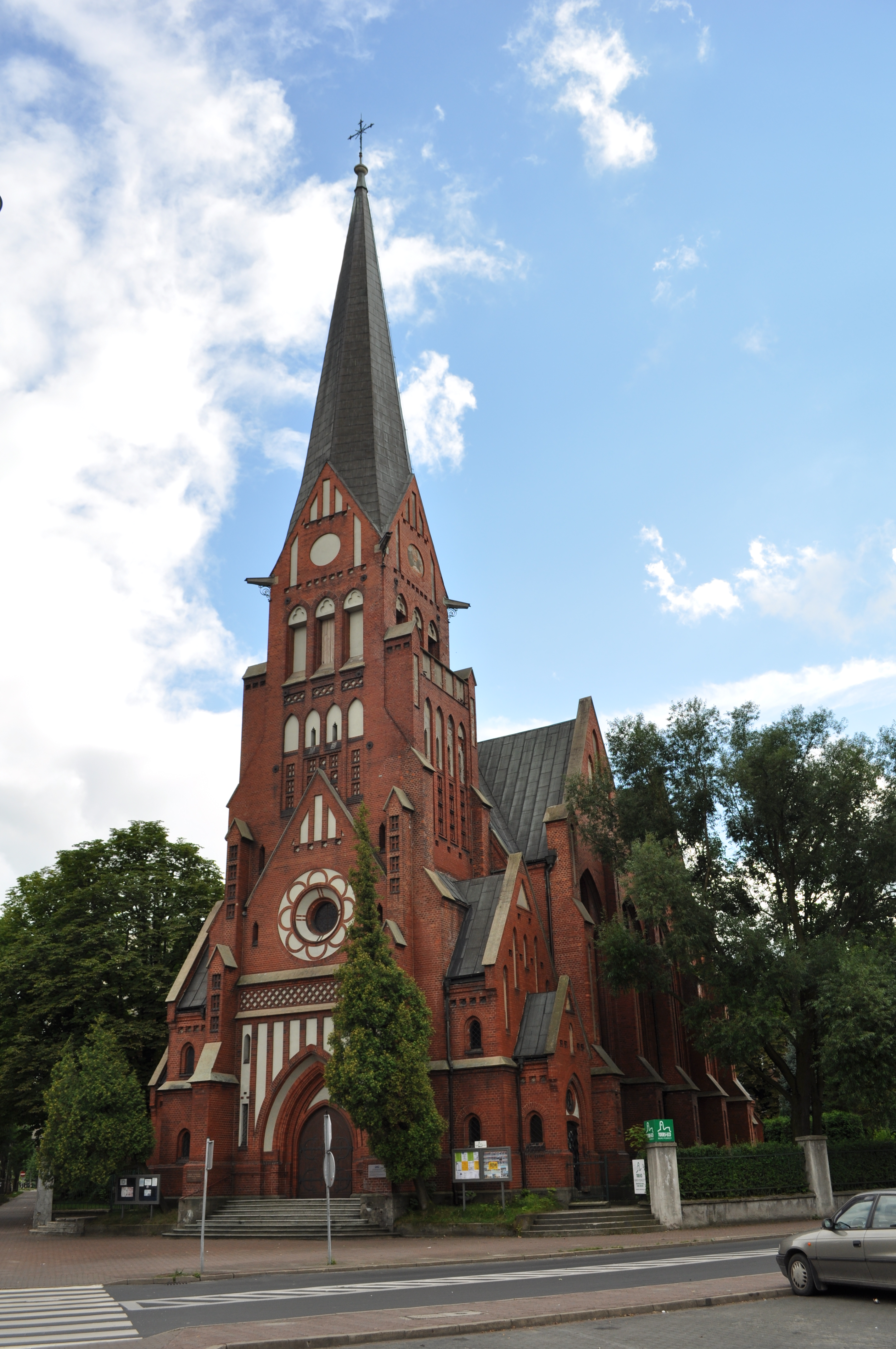 Lutheran church in Częstochowa